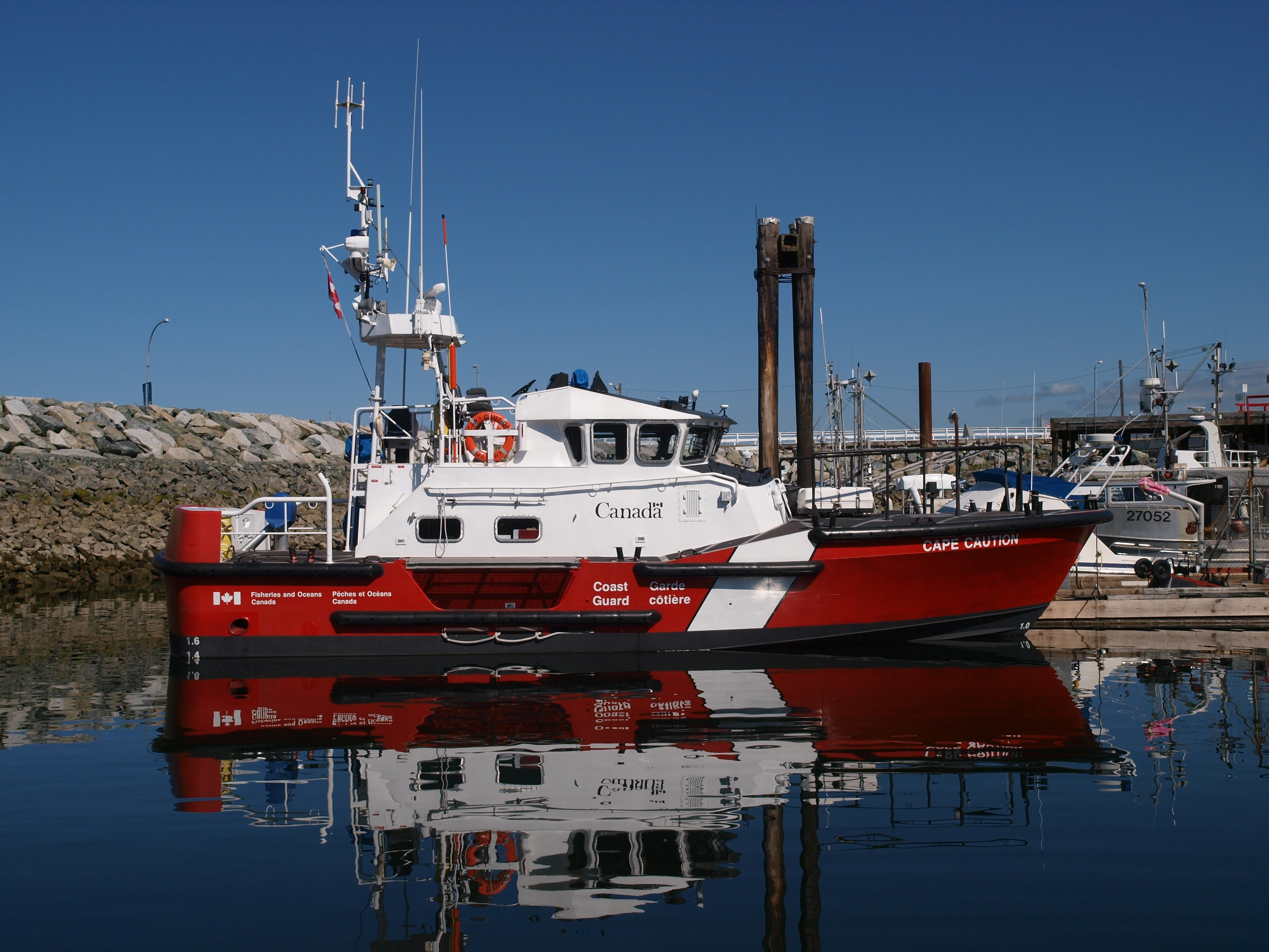 Canadian Coast Guard Ship Cape Caution at dock in Powell River, BC